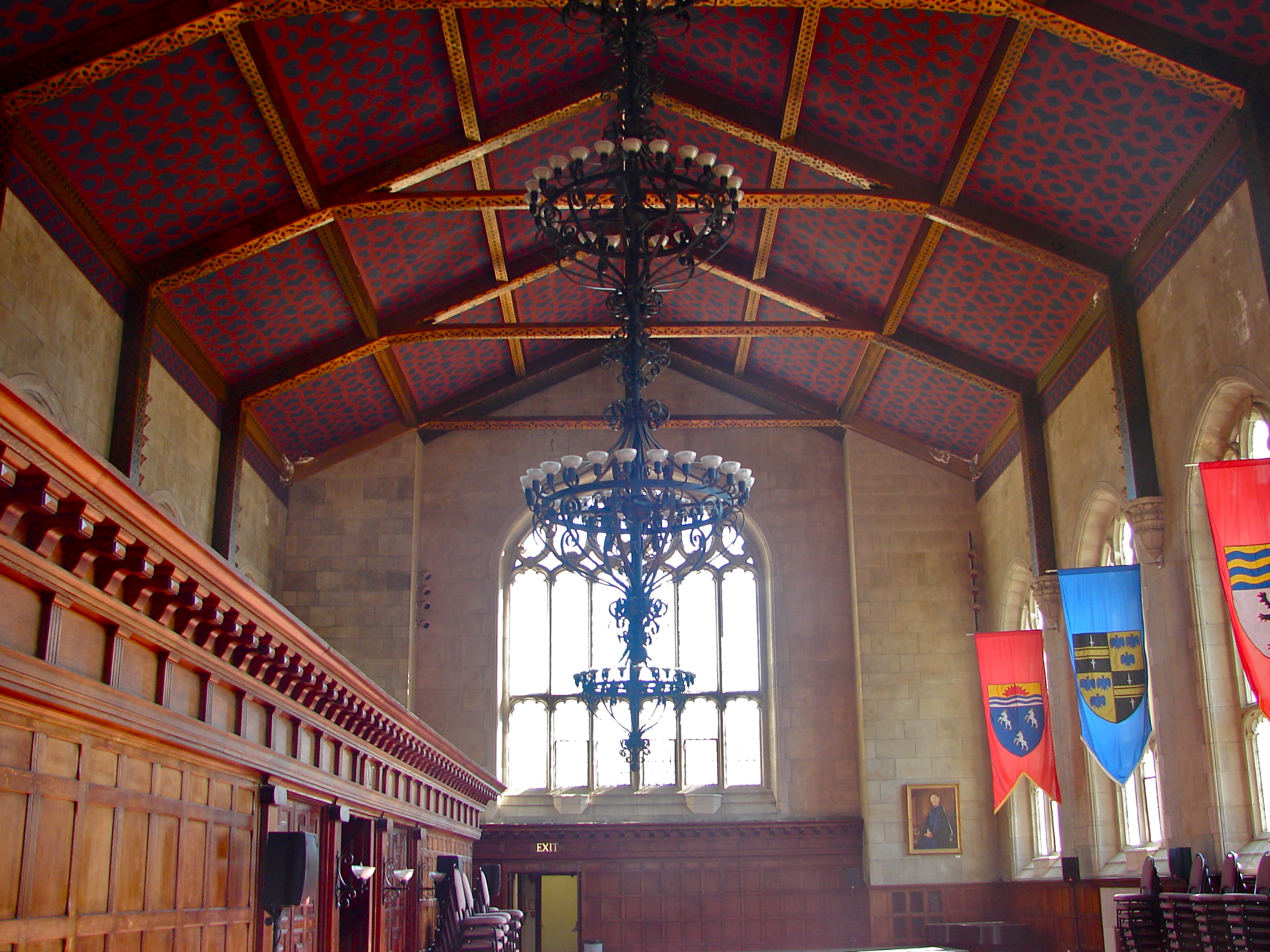 Great Hall in the M. Carey Thomas Library, Bryn Mawr College 1991 Bryn Mawr, Montgomery County, Pennsylvania. Listed as a National Historic Landmark since 1991.